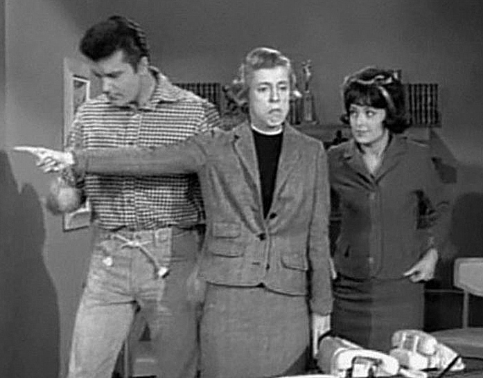 Cropped screenshot of Max Baer Jr., Nancy Kulp and Sharon Tate (in a dark wig) from the television series The Beverly Hillbillies